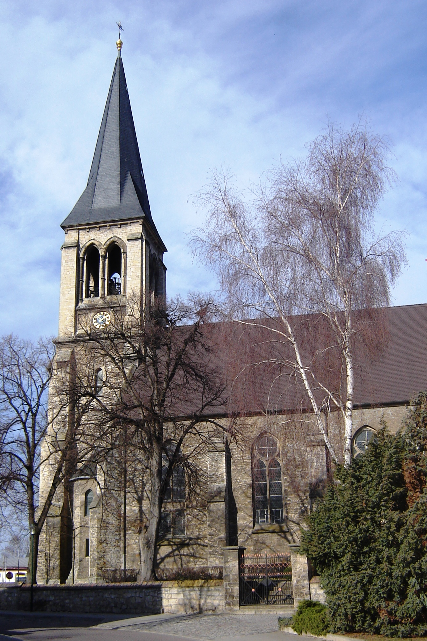 Church of Staßfurt-Atzendorf, Germany